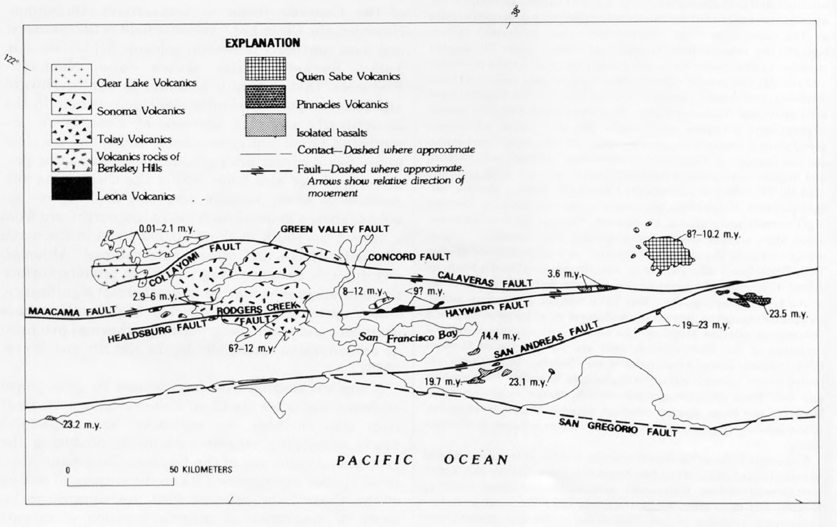 Major California faults and ages of volcanics